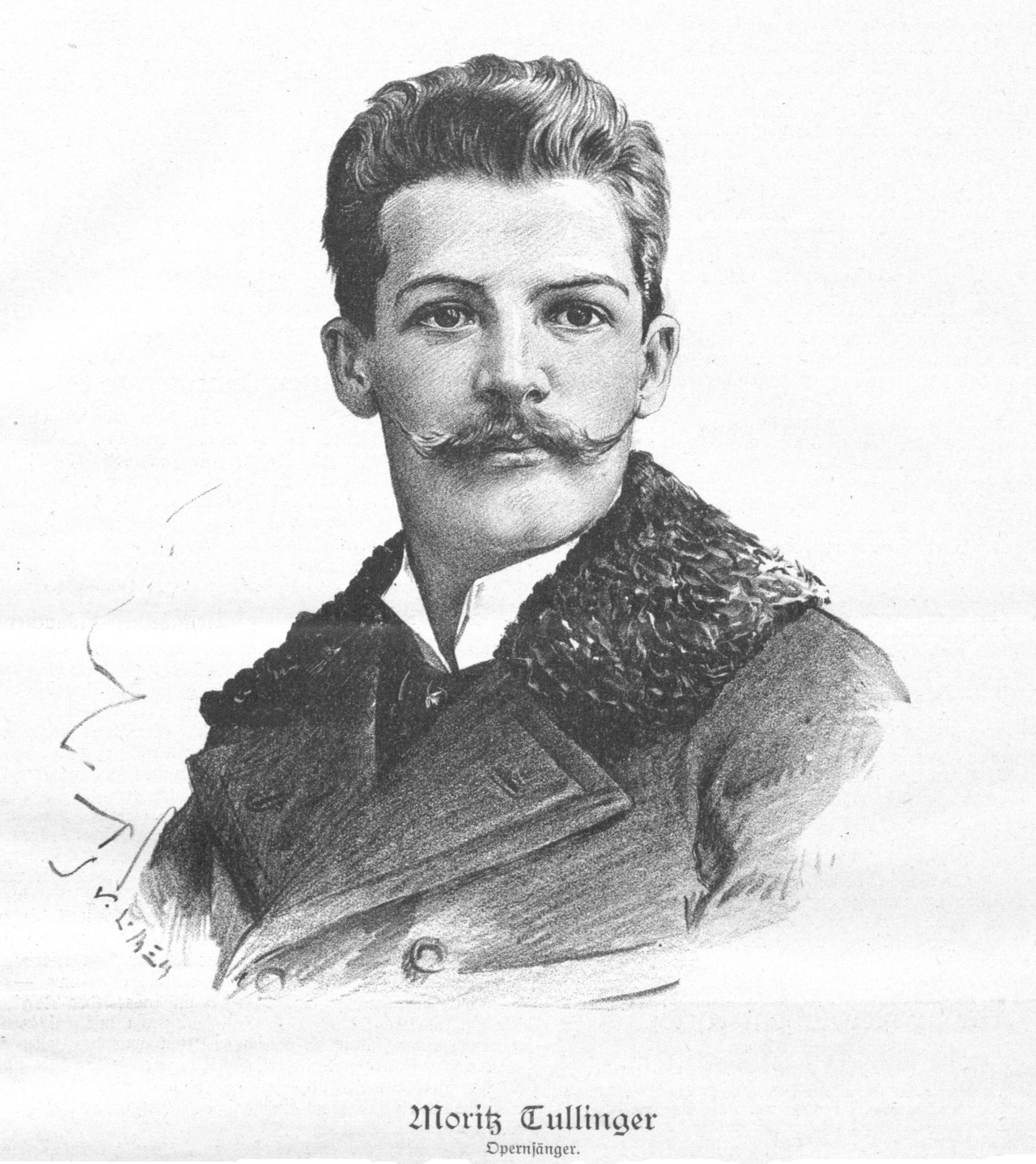 Portrait of Moritz Tullinger (1867-1901), Austrian opera singer.